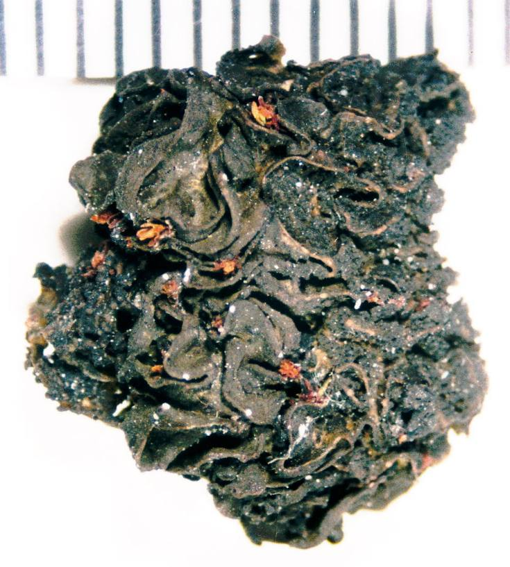 Collema undulatum var. granulosum Degel., 1954 (photograph of a herbarium specimen taken through a dissecting microscope (x6) showing dark brown to black lobes lacking isidia) Growing on limestone on the shore of Bush Bay, near the picnic area, ca. 6 miles E of Cedarville on M-134, Mackinac County, Michigan, USA; collected and identified by Richard E. Riefner (No. 81-409, 7 Jul 1981); specimen is now in the Lichen Herbarium of the New York Botanical Garden. (scale marks = millimeters)